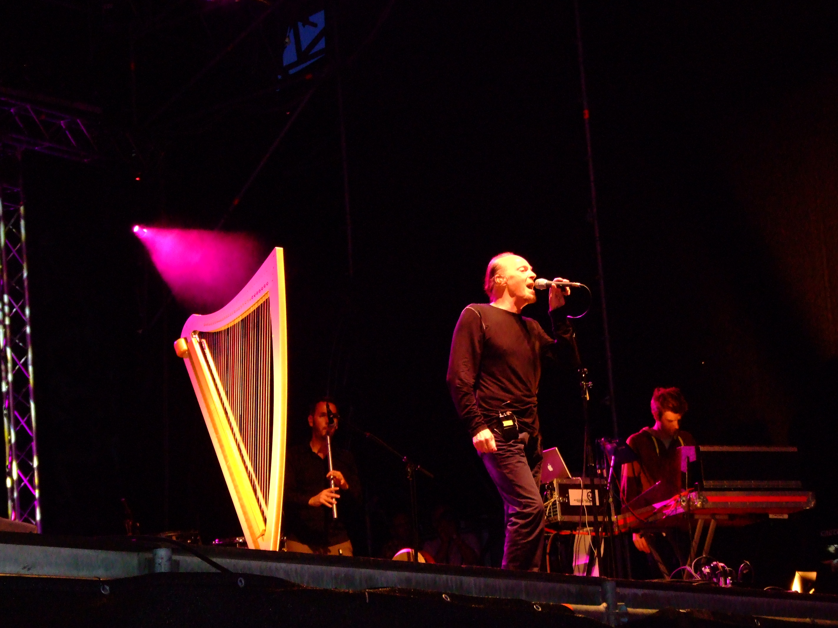 Alan Stivell live at the Bardentreffen in Nuremberg, Germany.